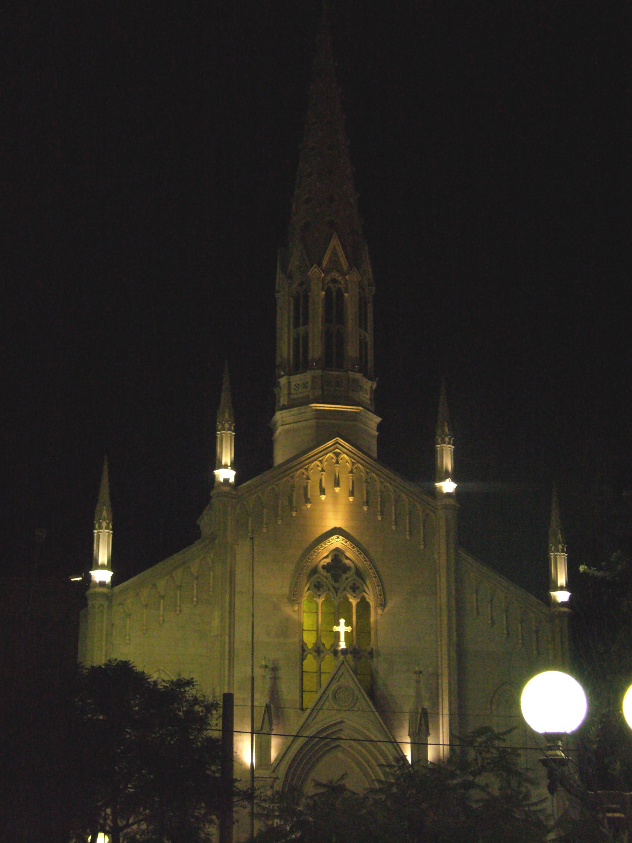 St. Vincent Ferrer Church in Godoy Cruz City, Mendoza Province, Argentina.